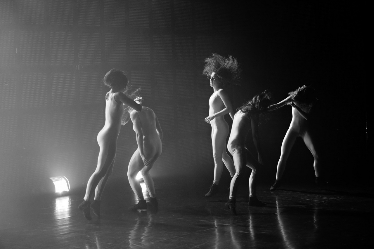 POP IT UP, New Dance Forum, concept and choreography Dragana Bulut, SNT, Novi Sad, 2013/2014 Srpski (latinica): POP IT UP, Forum za novi ples, koncept i koreografija Dragana Bulut, SNP, Novi Sad, 2013/2014. Српски (ћирилица): POP IT UP, Форум за нове плес, концепт и кореографија Драгана Булут, СНП, Нови Сад, 2013/2014.